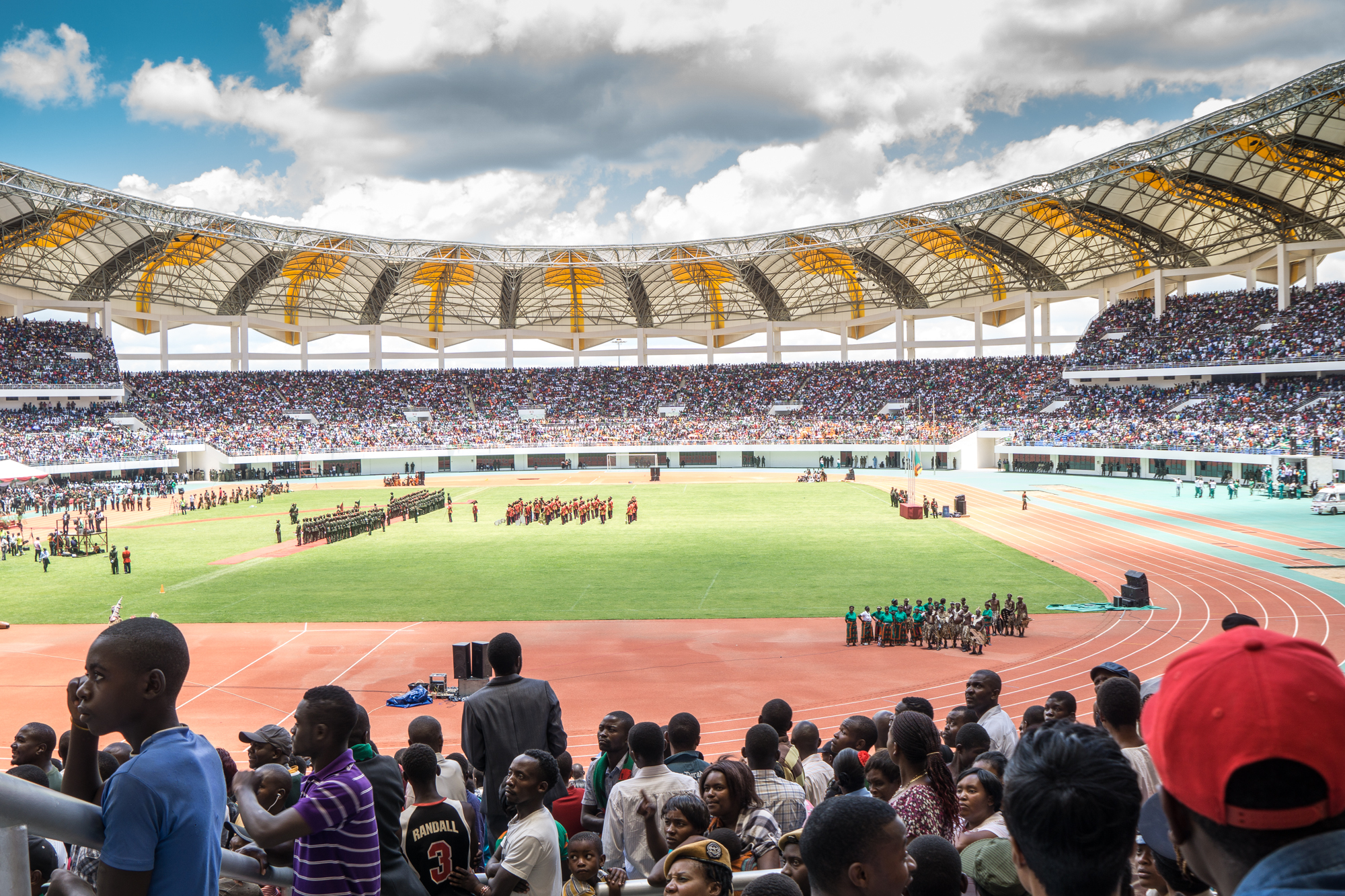 The inauguration of Zambia's sixth president, Edgar Lungu.